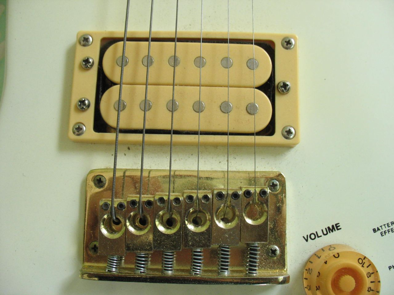 The Effector Guitar Comes with soft shell case 2 sets of pickups Volume, tone and speed knob 6 buttons for effects Electric 22 frets Serial no. 559-1490 WO. 21185 High gauge super distortion pickup (battery powered) Effects included on the guitar are phase, normal, delay, vibrato, wah, chorus and distortion Buyer beware, instrument has not had an electrical check-up All proceeds help us continue the fight against HIV/AIDS and homelessness